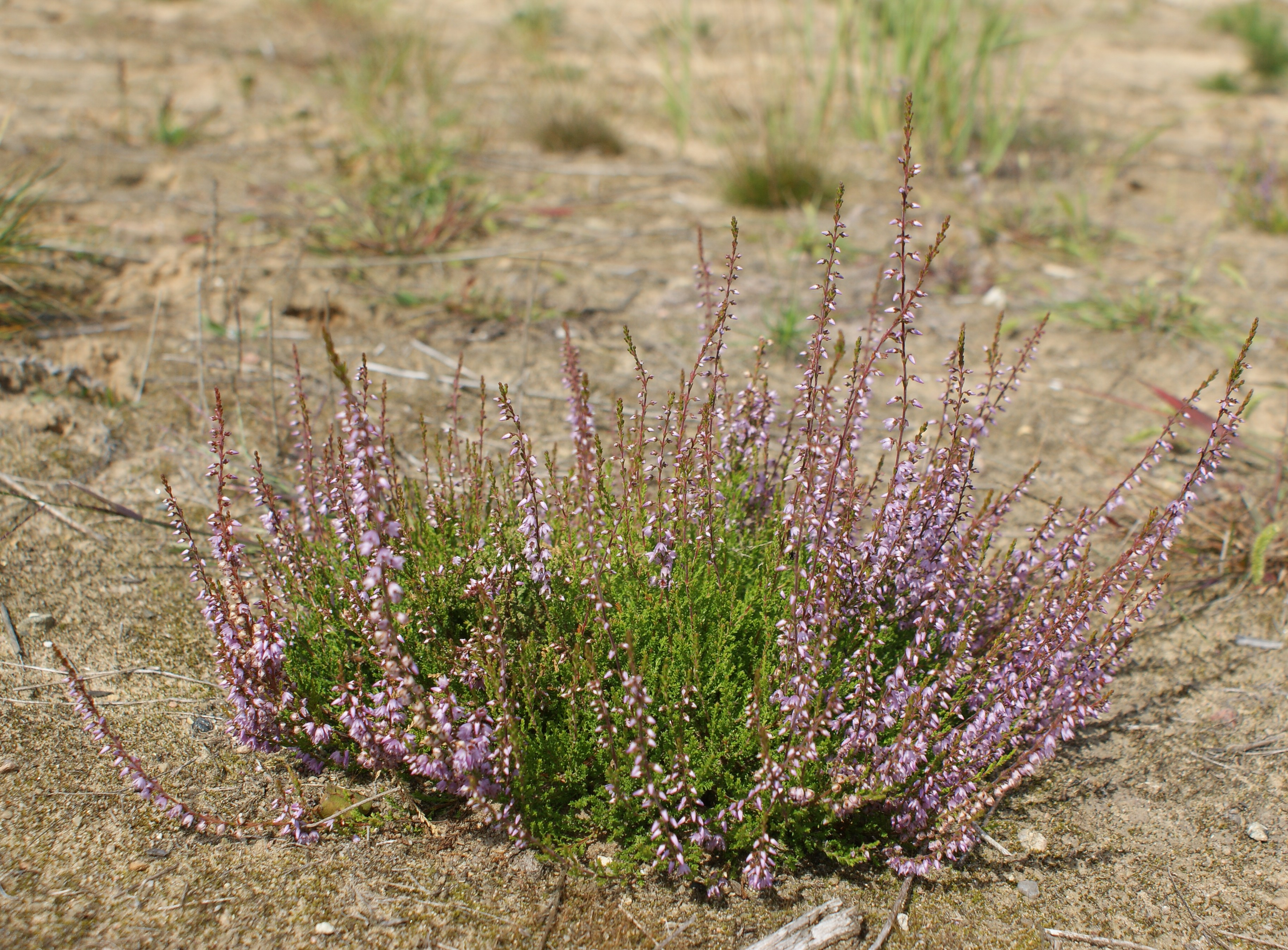 Calluna vulgaris, single plant